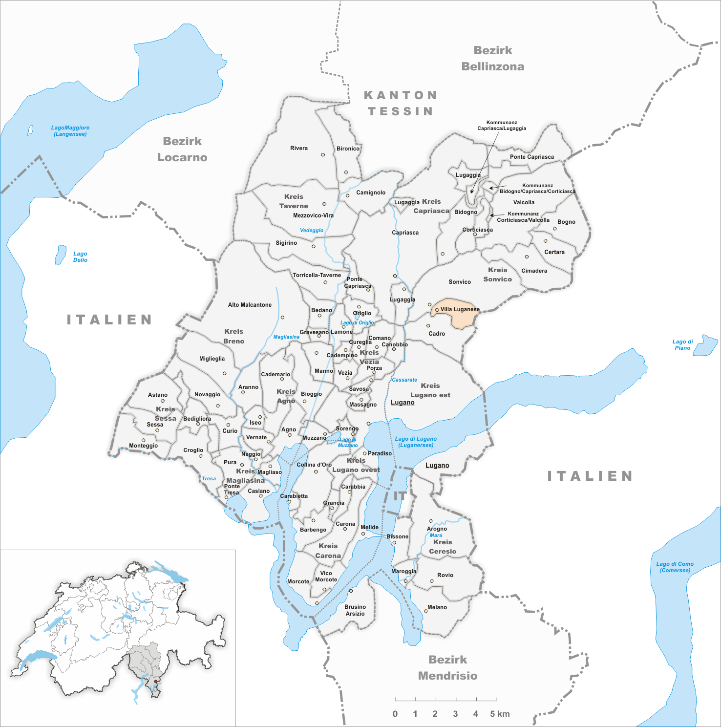 Municipality Villa Luganese